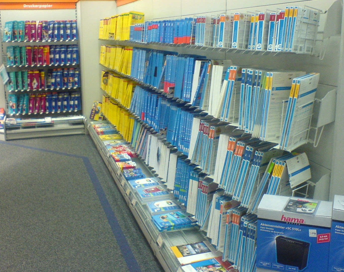 inkjet paper for sale.